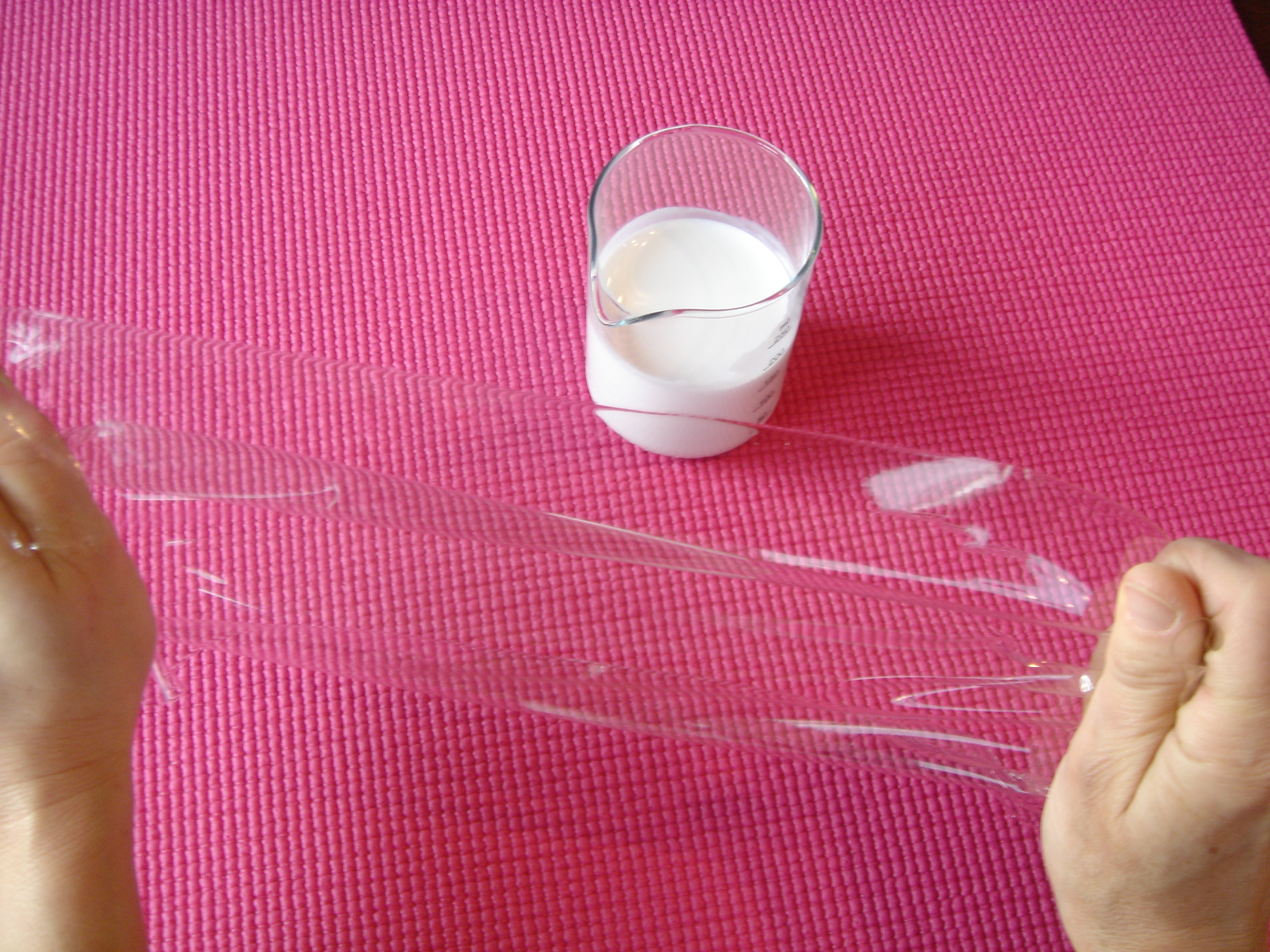 polyurethane clear film made from dispersion